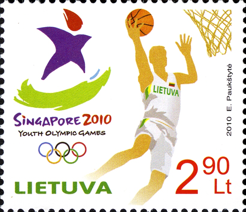 Stamps of Lithuania, 2010